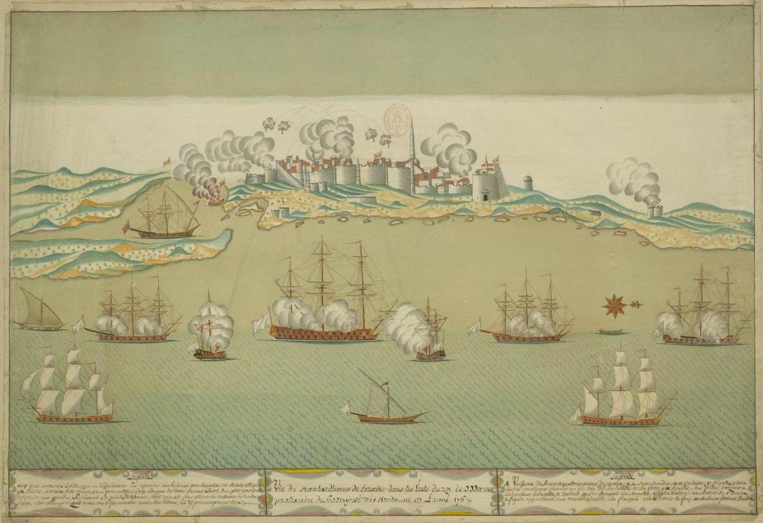 A painting of the French 1765 bombardment of Larache (Larache expedition)